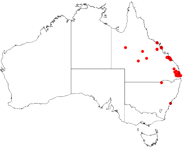 Places where Amalie Dietrich collected specimens in Australia (data downloaded from Australasian Virtual Herbarium 3 September 2019 using . (records were excluded when the collector (Dietrich) was not an A Dietrich or a Koncordie Dietrich and when the years did not match her time in Australia